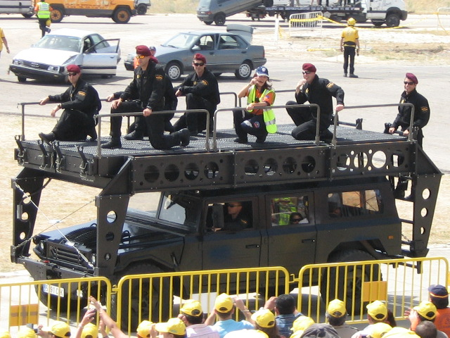 Members of the Grupo Especial de Operaciones during an assault demonstration.